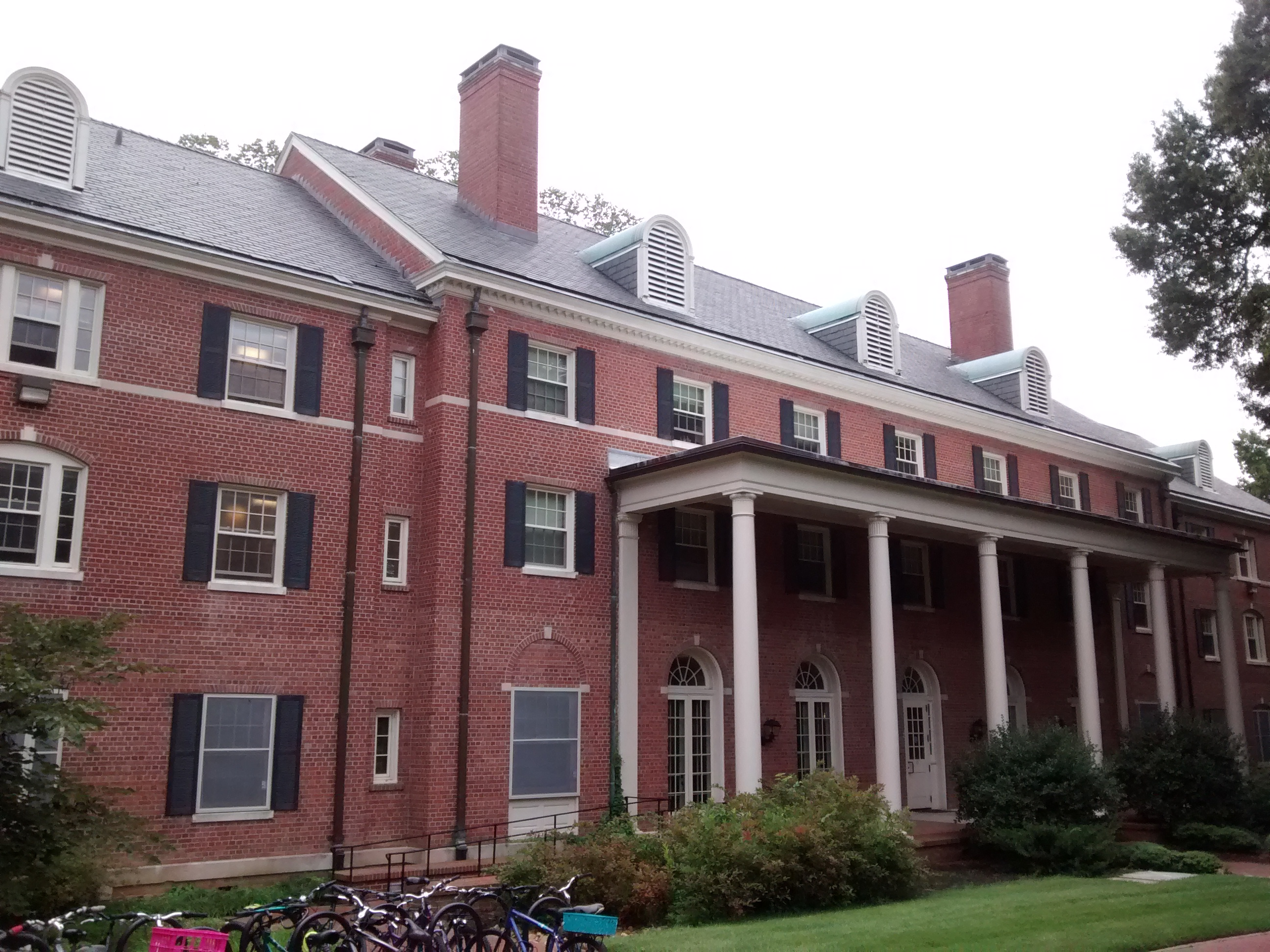 McIver Residence Hall at the University of North Carolina at Chapel Hill.